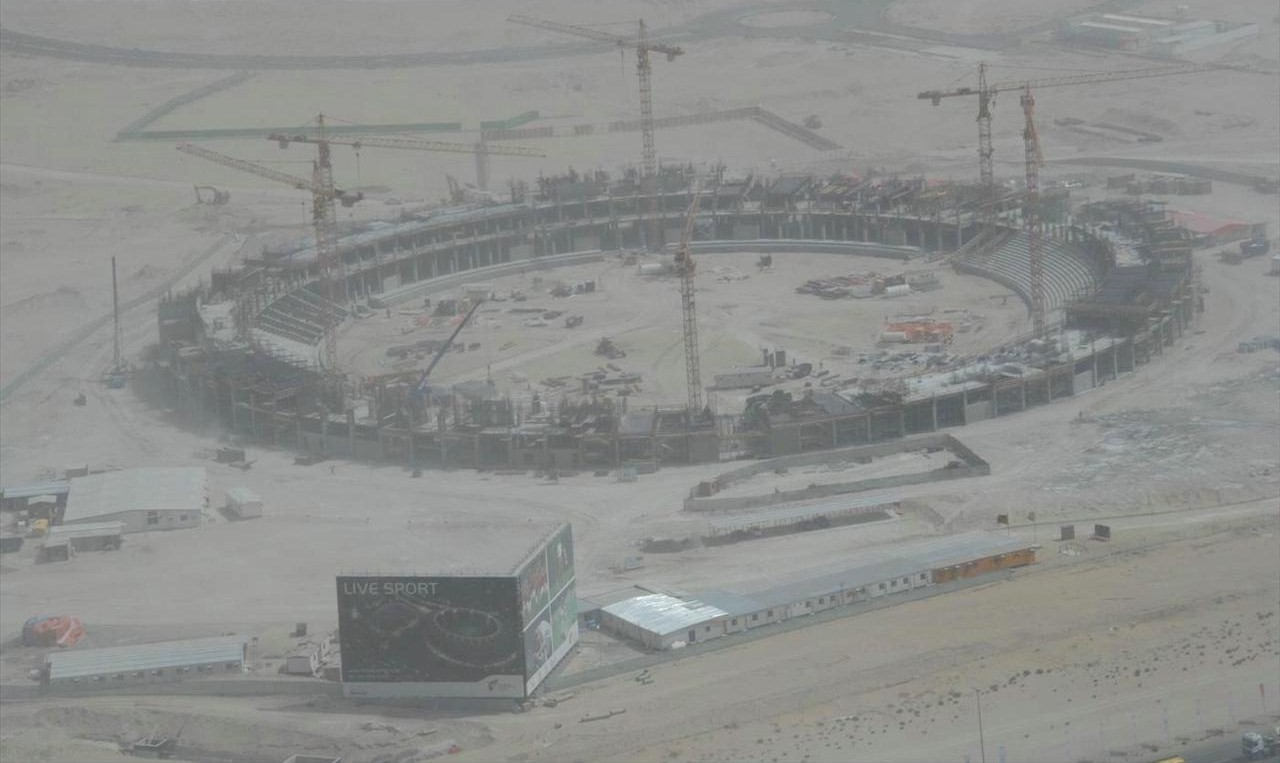 This is a photo showing the construction of a stadium in Dubai Sports City in Dubai, United Arab Emirates as seen from the air on 1 May 2007.